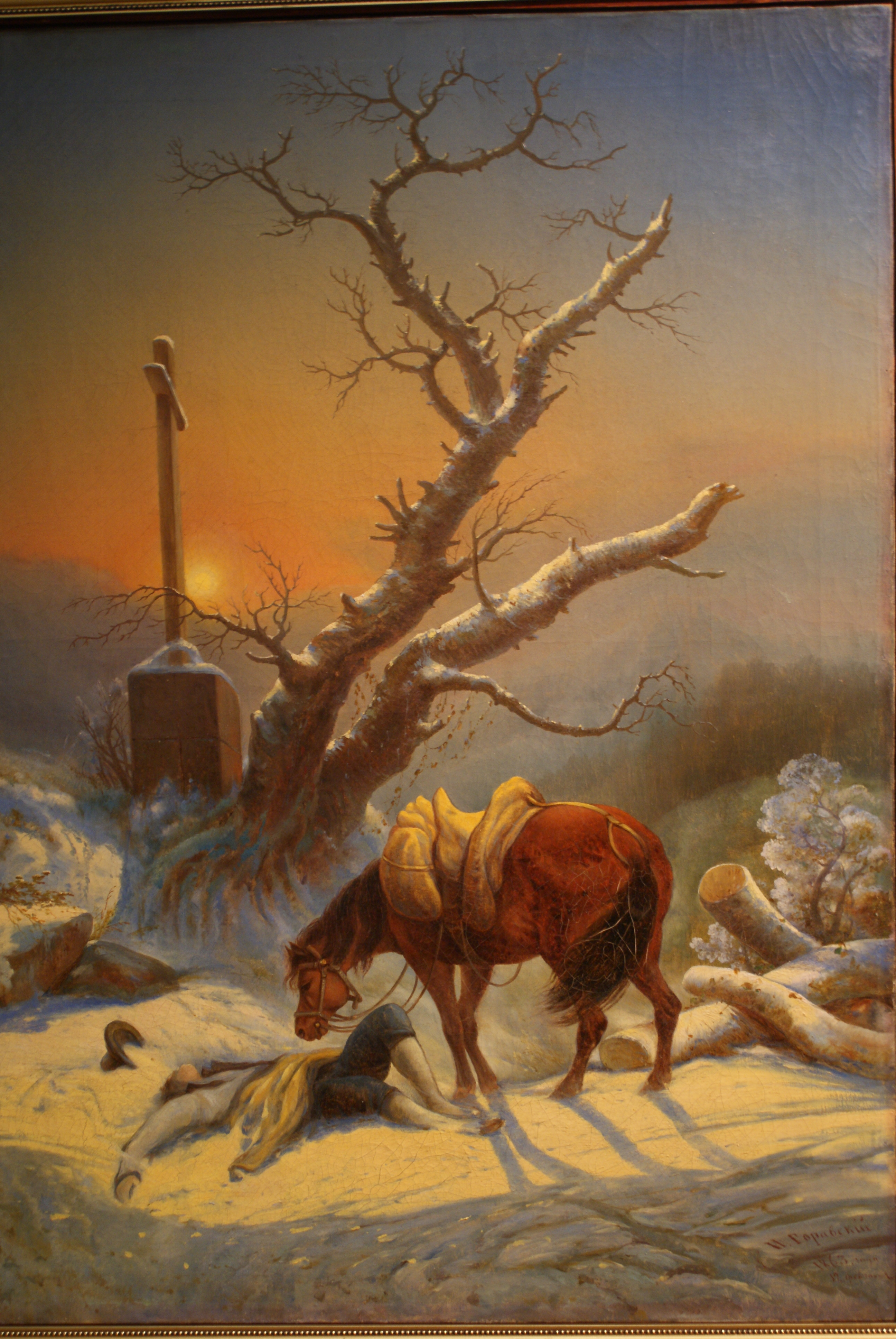 Lya_kryzha.Smert_povstantsa